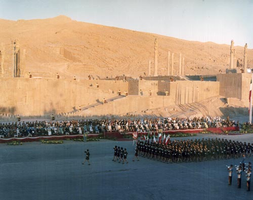 2500 year celebration of the Persian Empire